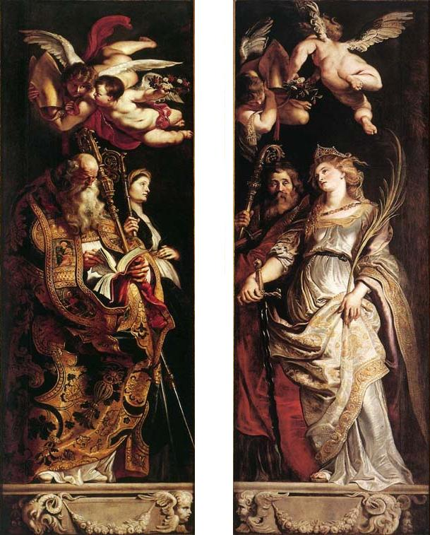 The raising of the Cross, exterior.